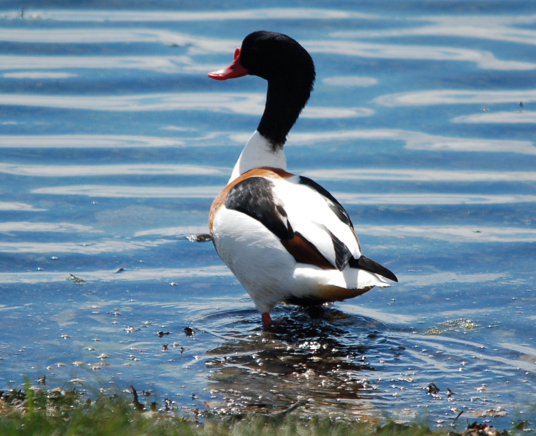 Common Shelduck (Tadorna tadorna) Nalum, Norway